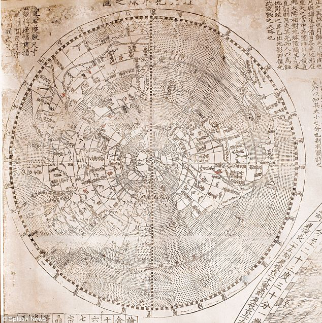 Impossible Black Tulip - small scale polar projection version displayed in top of first left panel of first chinese world map